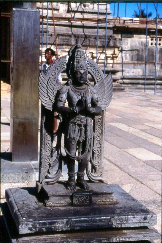 Garuda, Hoysala Dynasty, Belur, Karnataka, India